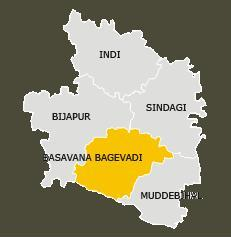 BBG bijapur